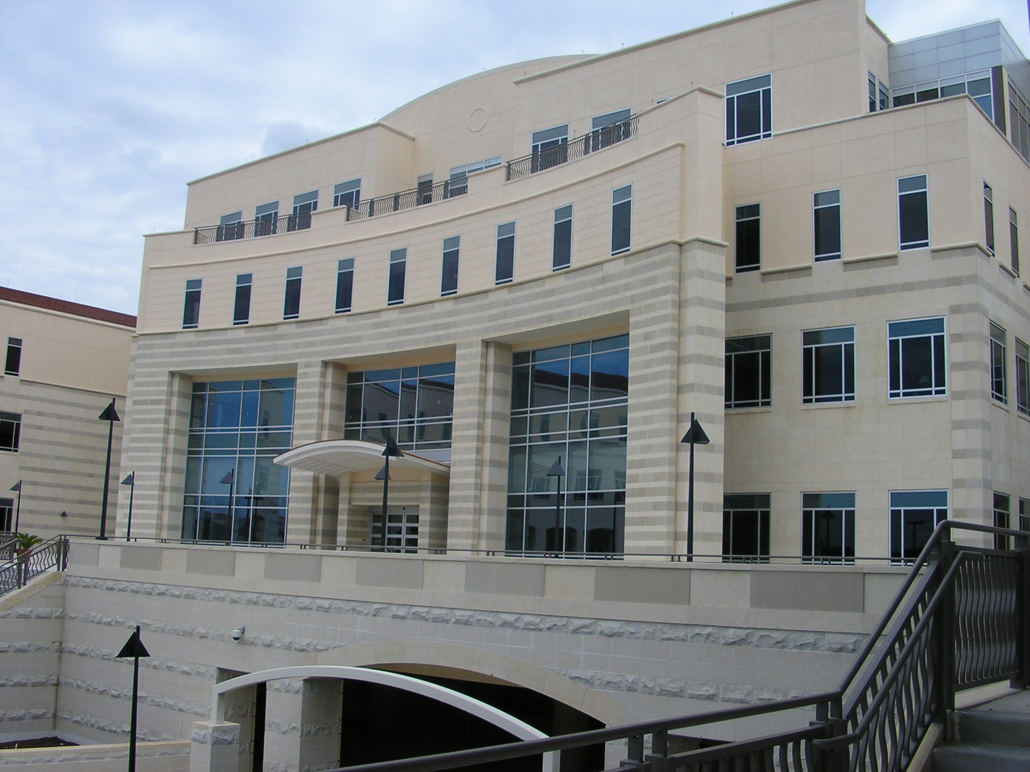 The Main Building at the University of Texas at San Antonio